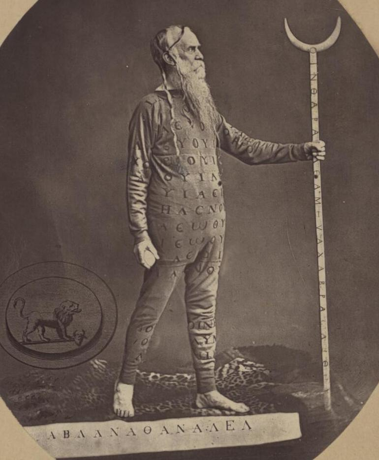 A portrait from the Welsh Portrait Collection at the National Library of Wales. Depicted person: William Price – Welsh physician, born 1800